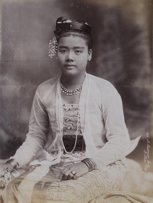 Description: Photograph of a Burmese Lady. Location: Rangoon, Burma Date: 1906 Our Catalogue Reference: COPY 1/502/118 This image is from the collections of The National Archives. Feel free to share it within the spirit of the Commons. For high quality reproductions of any item from our collection please contact our image library.